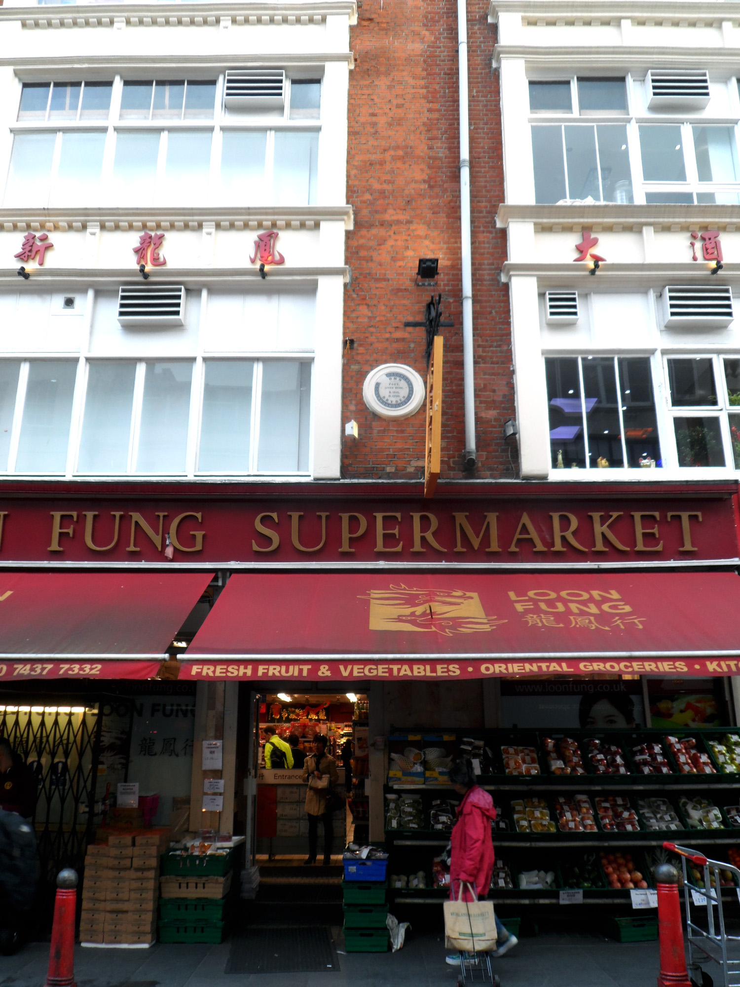 JOHN DRYDEN POET LIVED HERE B. 1631 D. 1700